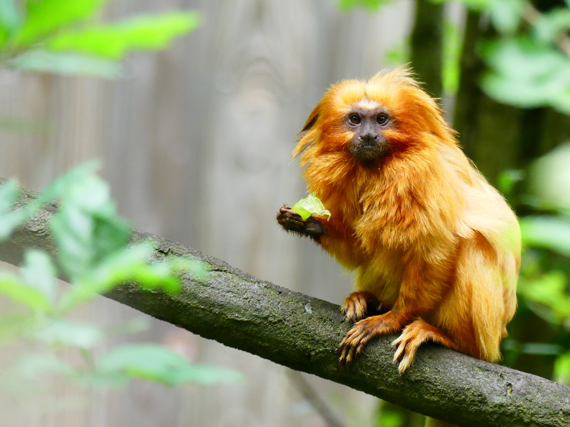 Golden Lion Tamarin, Réserve zoologique de Calviac